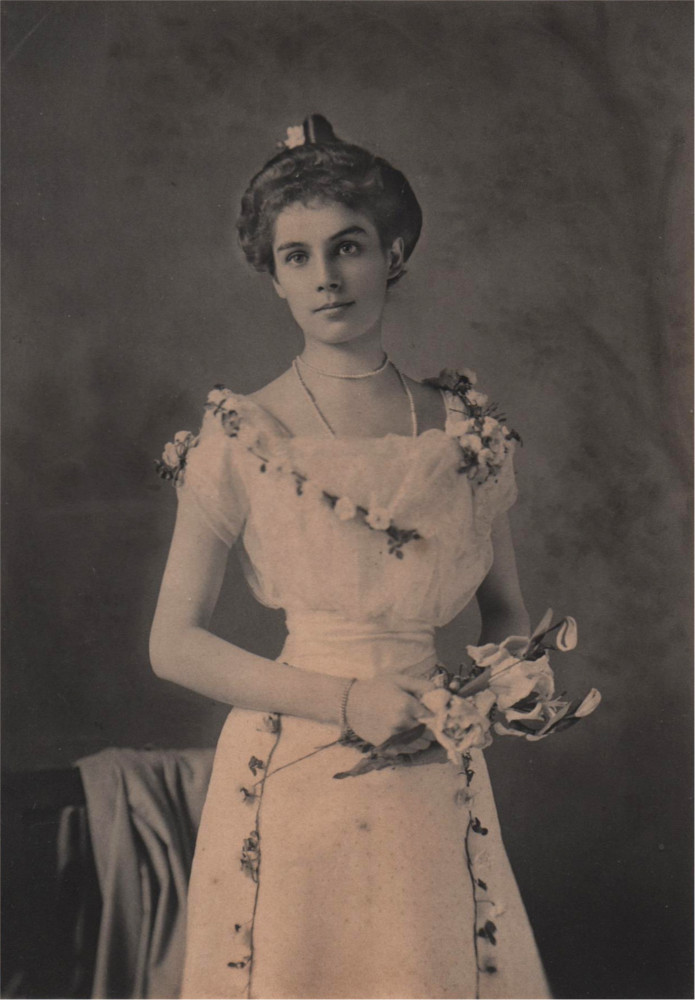 Photograph by A. Esme Collings of a woman wearing a corset circa 1900.